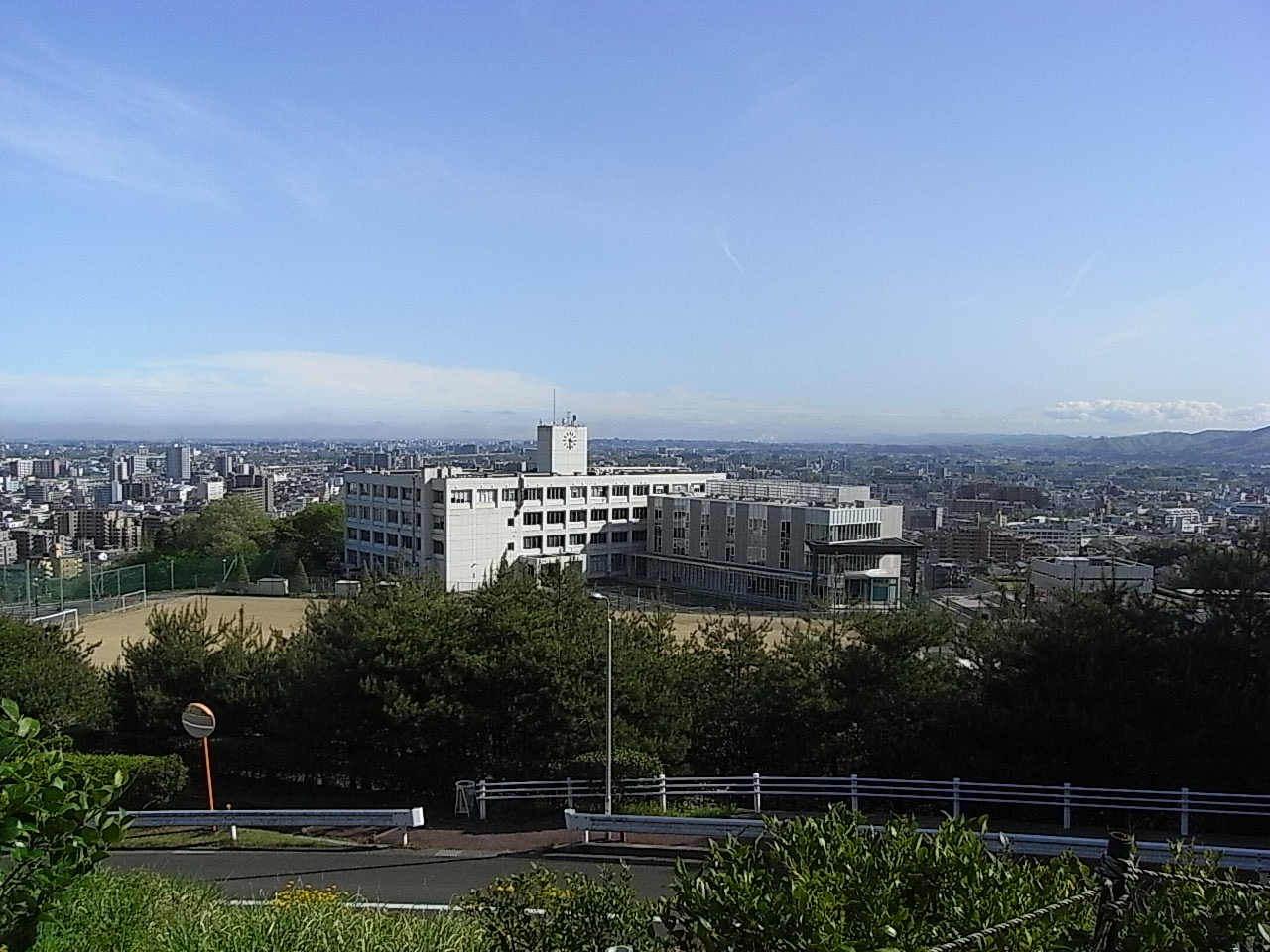 Tohoku Institute of Technology Nagamachi Campus. Futatsusawa, Taihaku ward, Sendai, Miyagi prefecture, Japan. Southward.